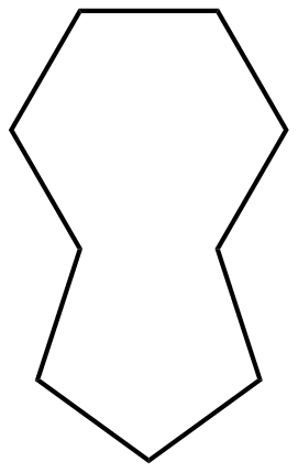 Cyclononane structure